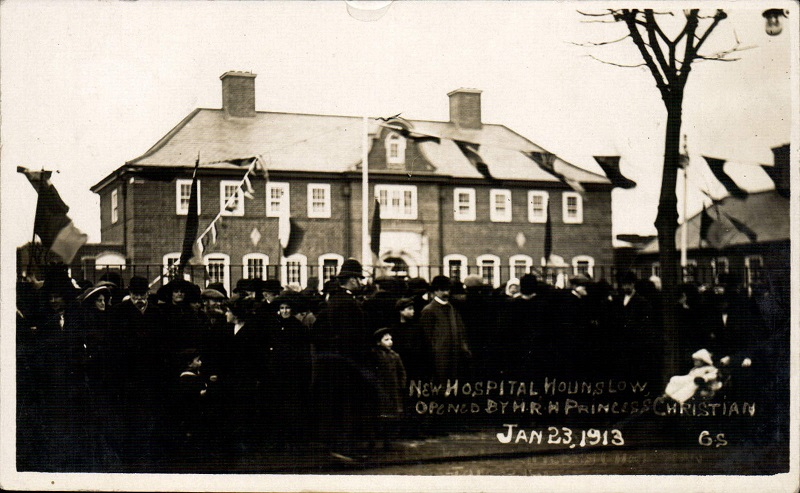 Old photograph of Hounslow Hospital